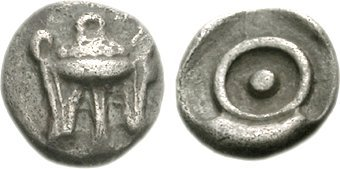 Phokis, Delphi. Circa 480 BC. AR Obol (0.85 g). Short tripod Pellet within circle (omphalos or phiale); all within incuse square.